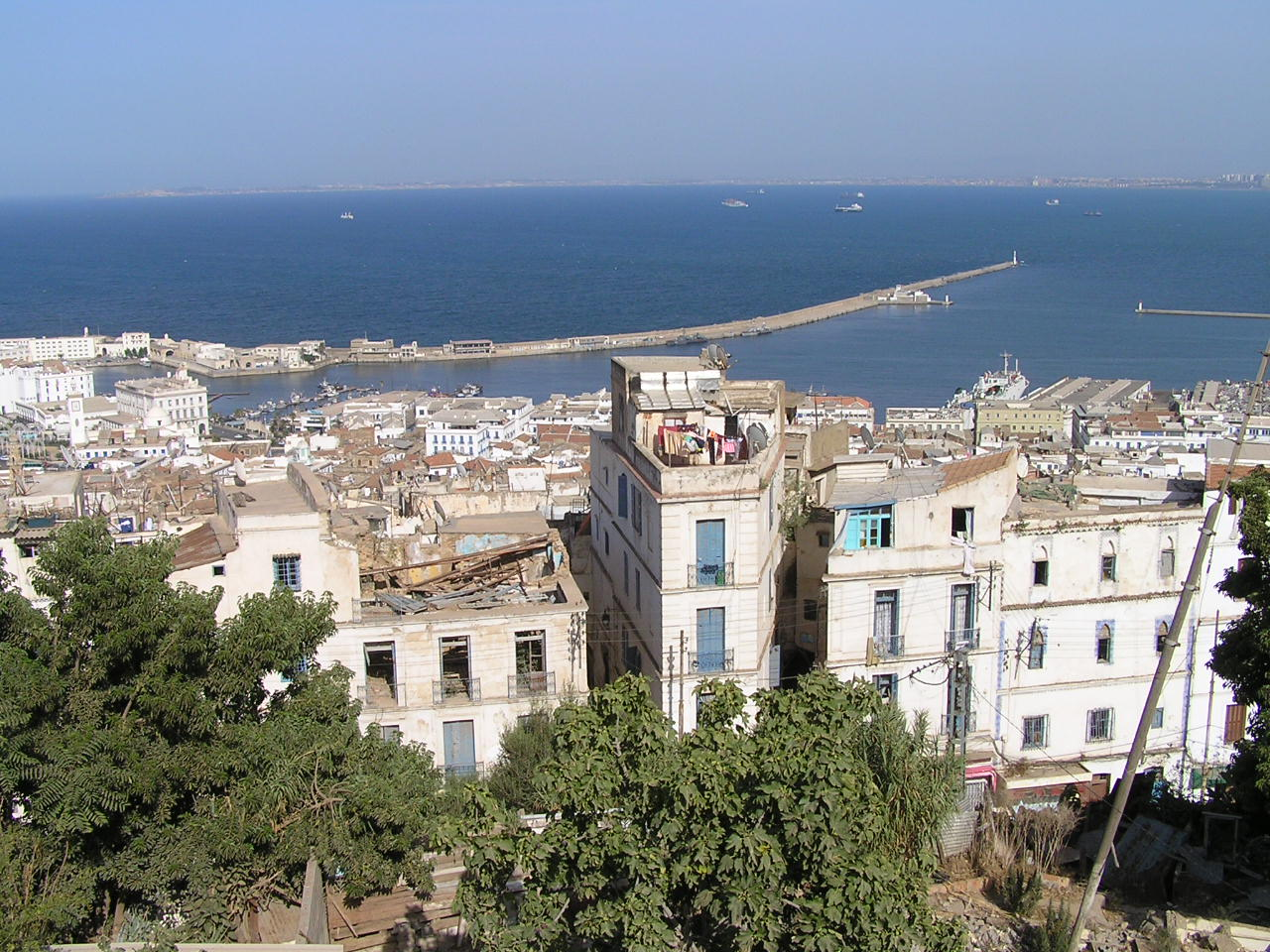 Sight on the old door Bab el Jedid and the wearing of Algiers in background (Algiers, Algeria).